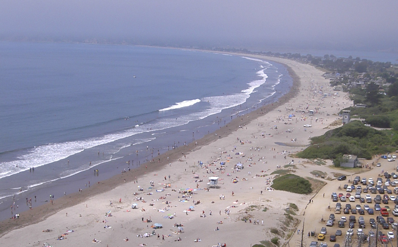 Bolinas Bay (left) and Stinson Beach (right) as seen from California State Route 1 looking northwest